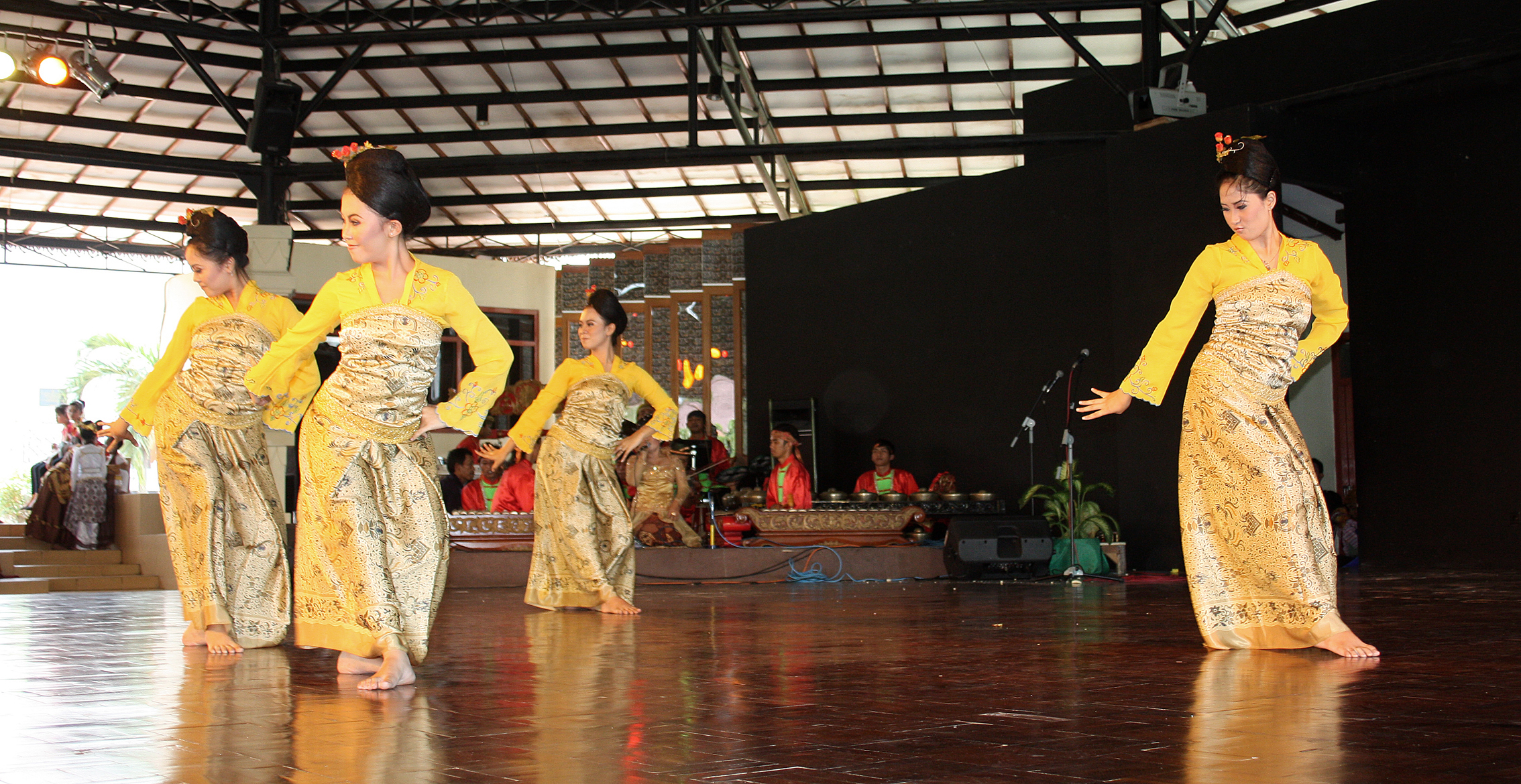 The Sundanese Jaipongan Mojang Priangan dance performance in West Java Pavilion, Taman Mini Indonesia Indah, Jakarta.